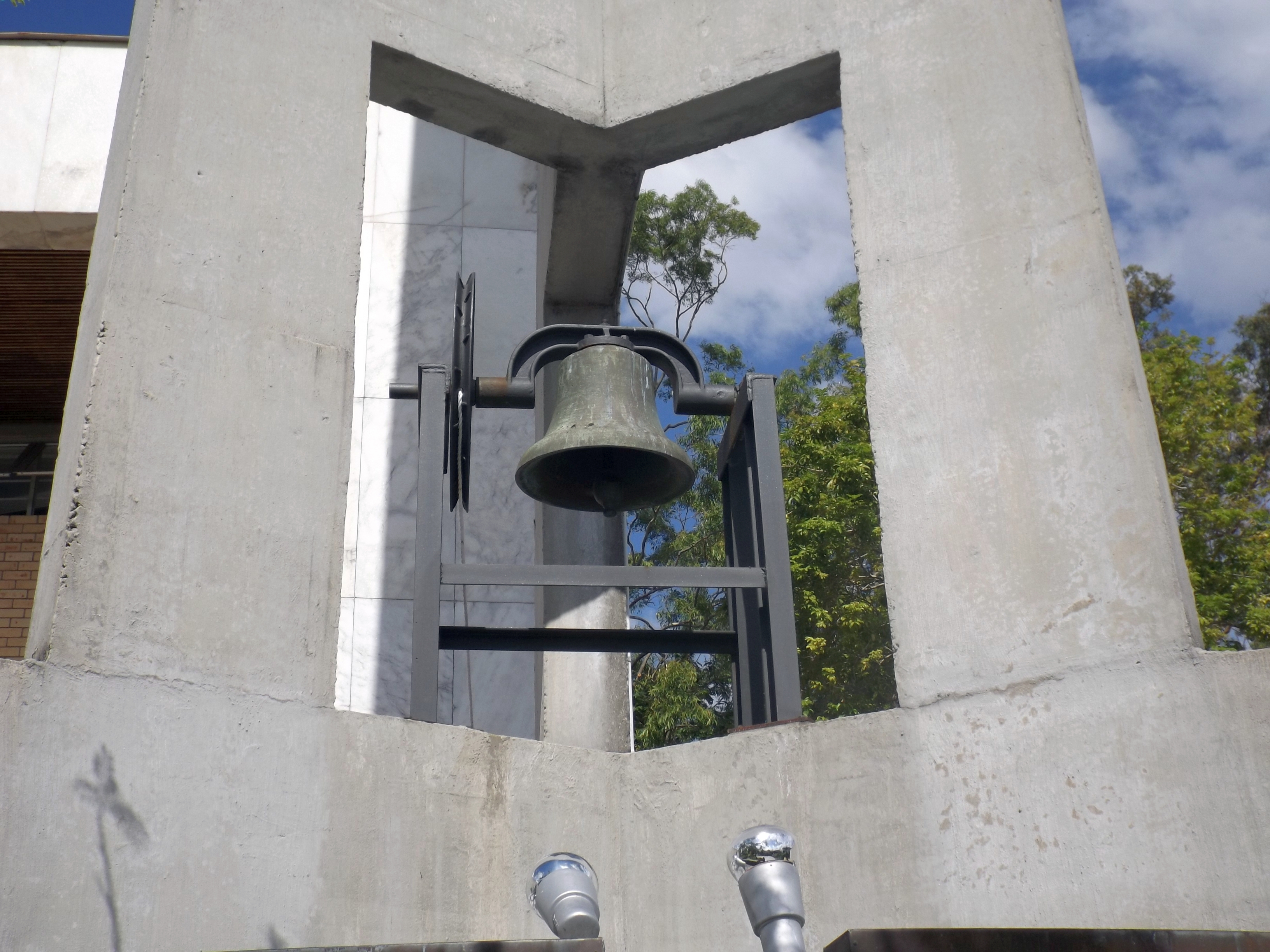 Photo of the bell at the Chapel of St Peter's Lutheran College in Indooroopilly, Brisbane, Queensland, Australia.